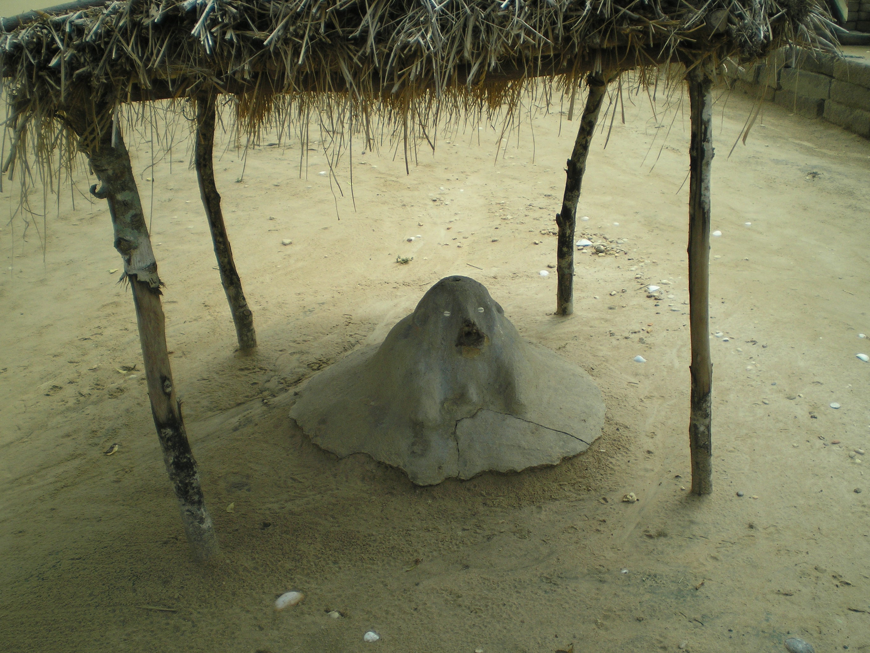 Alegba is a relics of Yewe, that is a ritual object in the Ewe religion in Ghana. It is a man-made earthen mound. Often cowrie shells are used to represent eyes and a figure is represented. The Alegba act as defenders of shrines, households and even neighbourhoods. They are found in front of homes in villages in the Volta Region in Ghana.